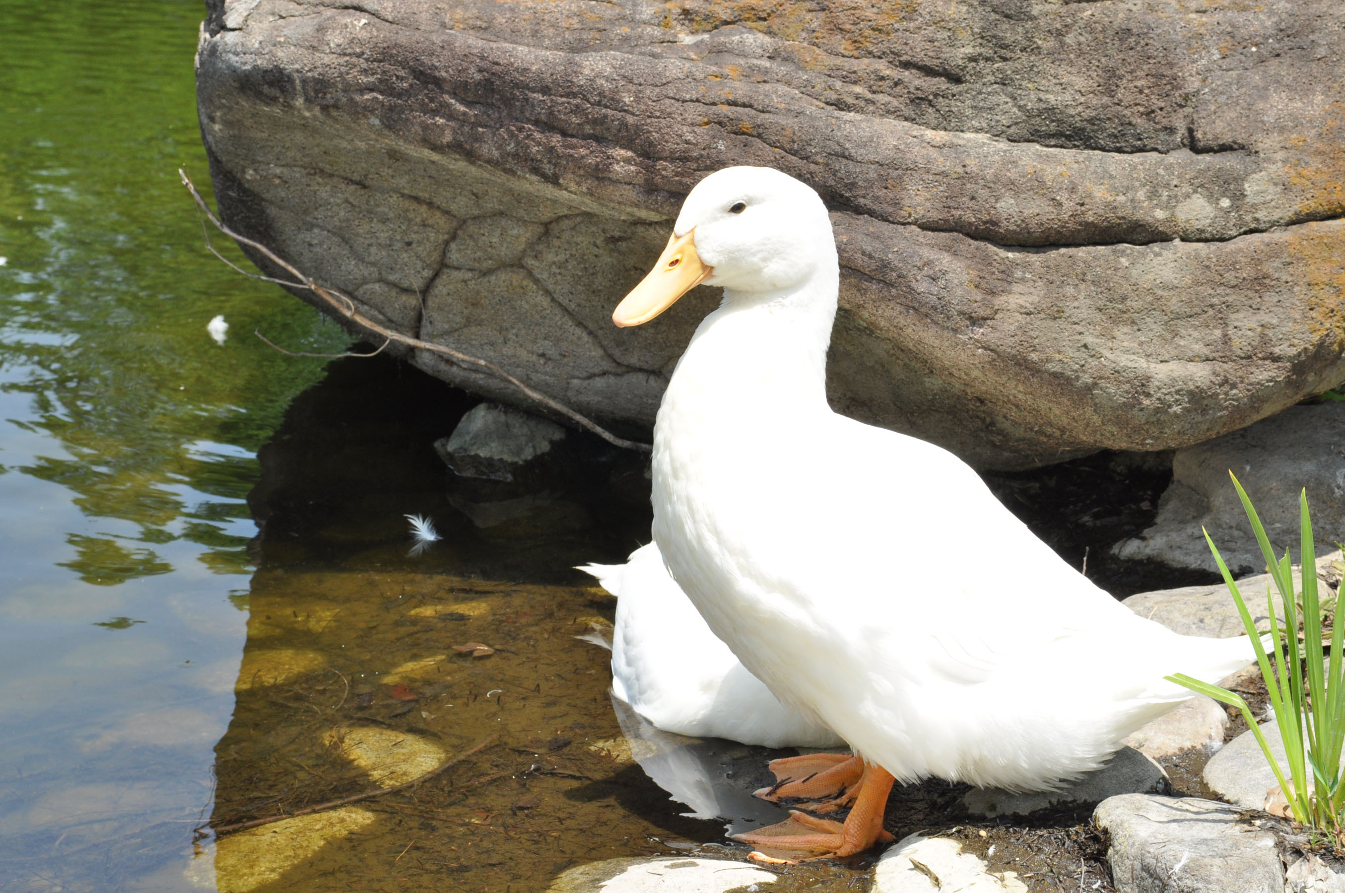 Duck